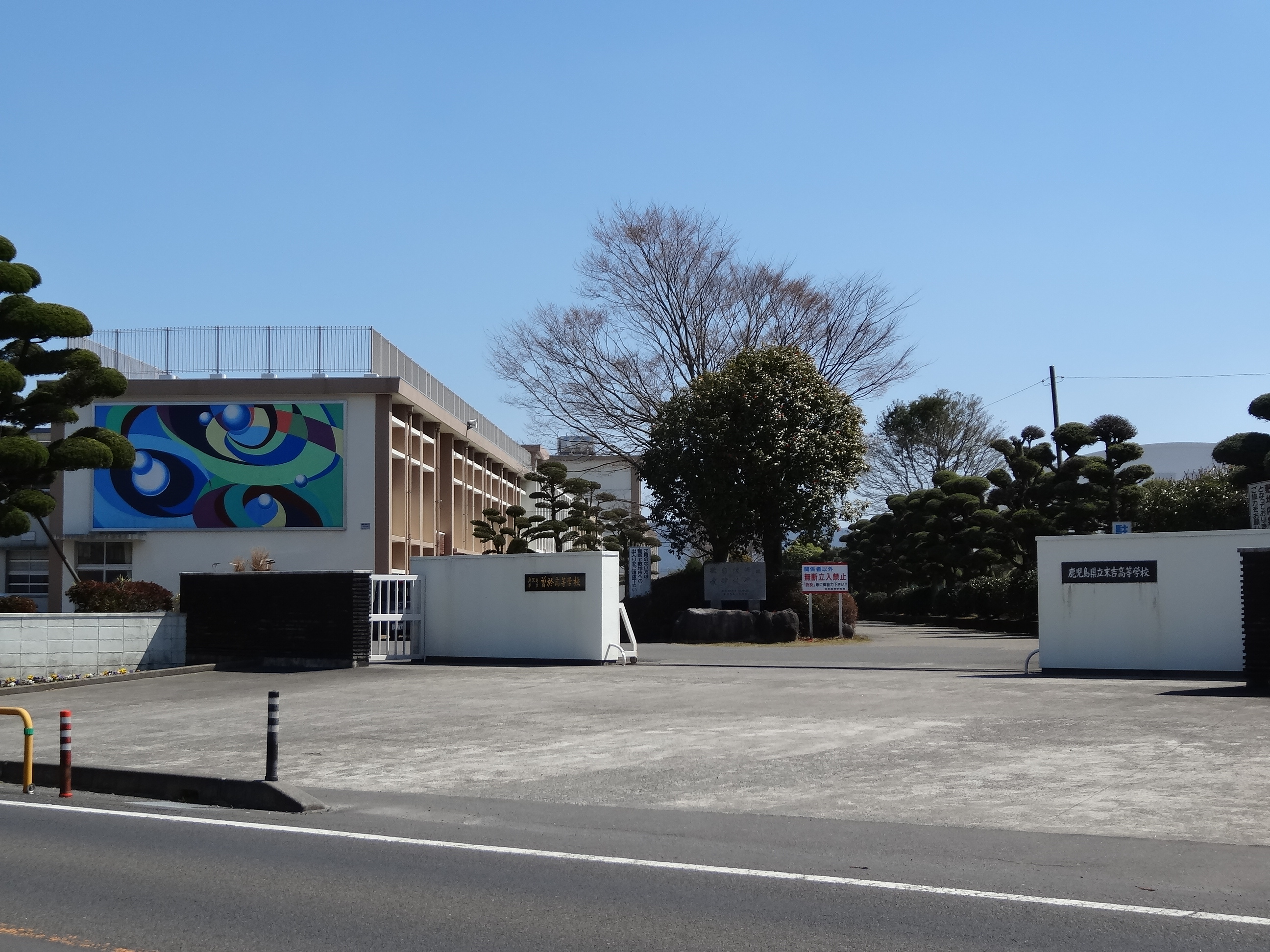 Kagoshima Prefectural Soo High School and Sueyoshi High School (Soo City, Kagoshima, Japan)